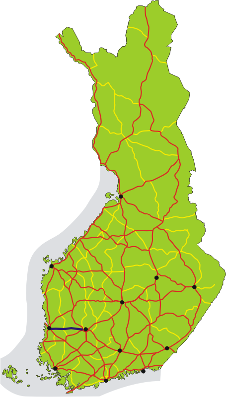 Map of the main road (highway) 11 in Finland, shown in dark blue. The other 1st class main roads (numbers 1–29) are red, 2nd class main roads (numbers 40–98) yellow. Black dots show the 12 biggest urban areas.